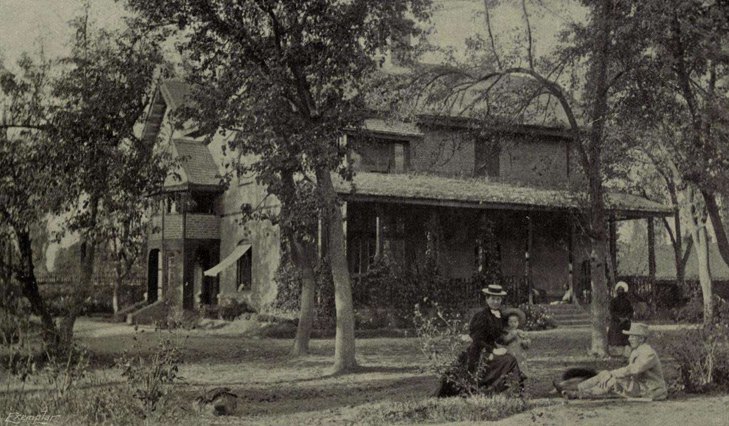 From "Irene Petrie - Missionary to Kashmir" by Mrs Ashley Carus Wilson (her sister?) c.1900